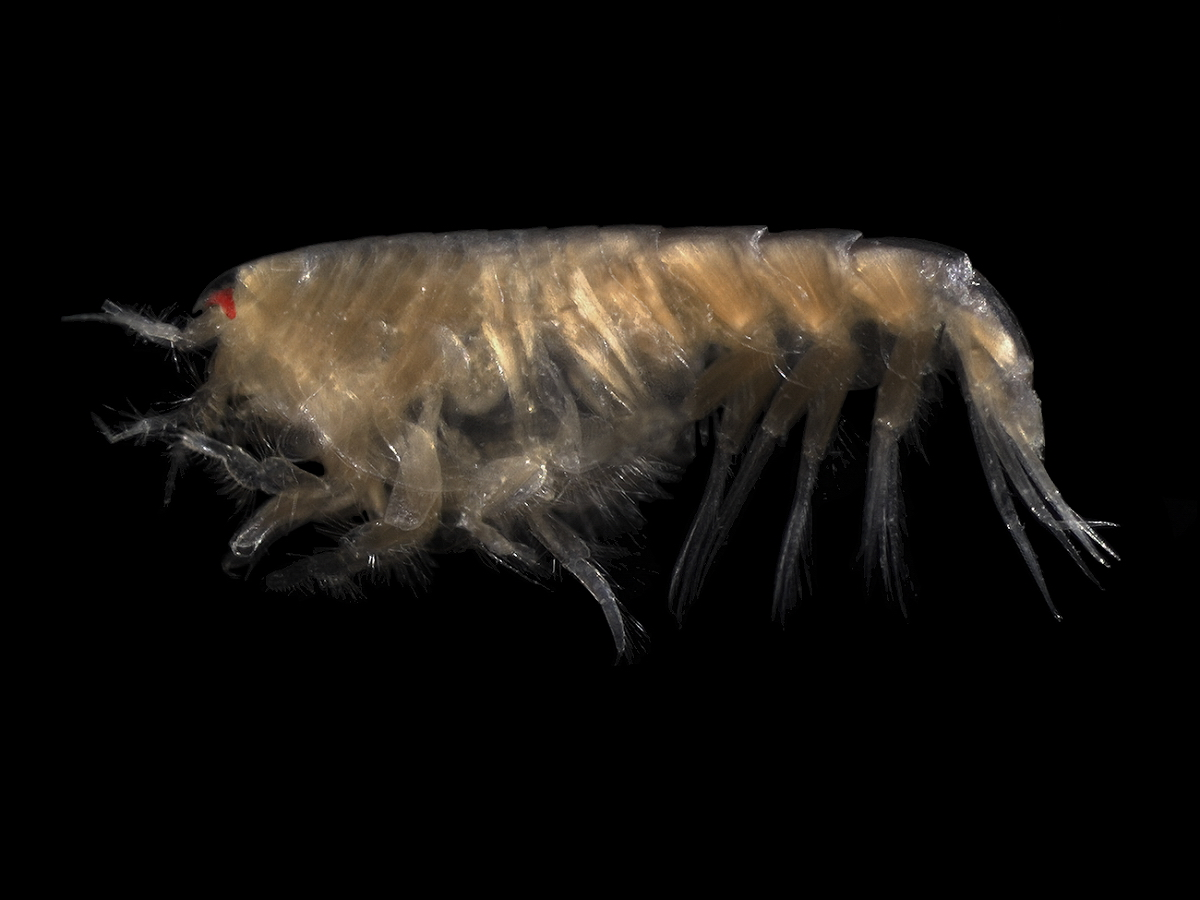 Amphipod with a short, pointed down-turned rostrum. Sampled on mid-sized sediments on the Belgian Continental Shelf in 1999. Geo-location not applicable as the picture was later taken in the lab.Picture taken with a camera mounted on a Zeiss Stemi C-2000 binocular microscopeLength: ~5 mm